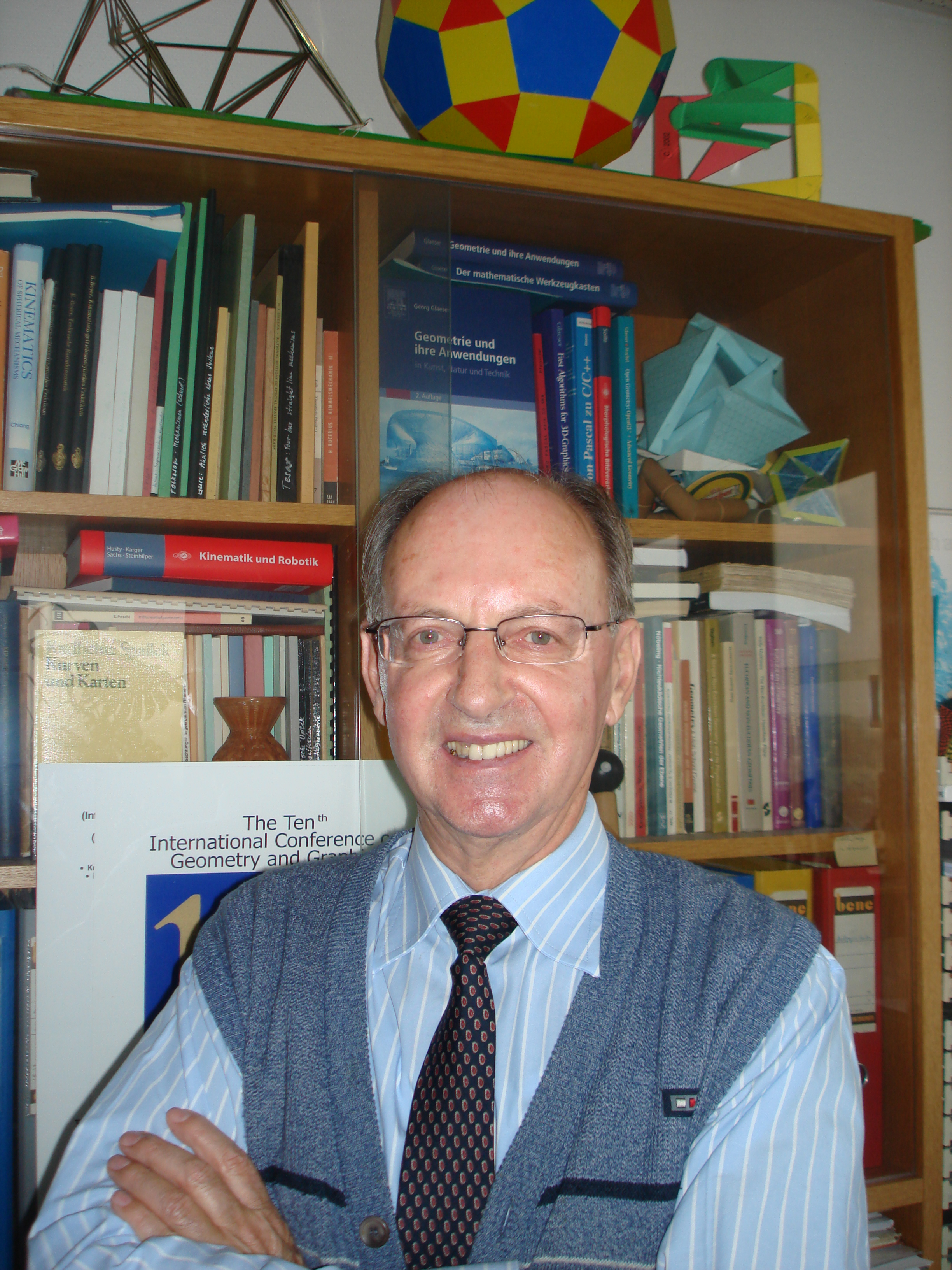 Hellmuth Stachel, an Austrian mathematician, in his office at TU Vienna in November 2009